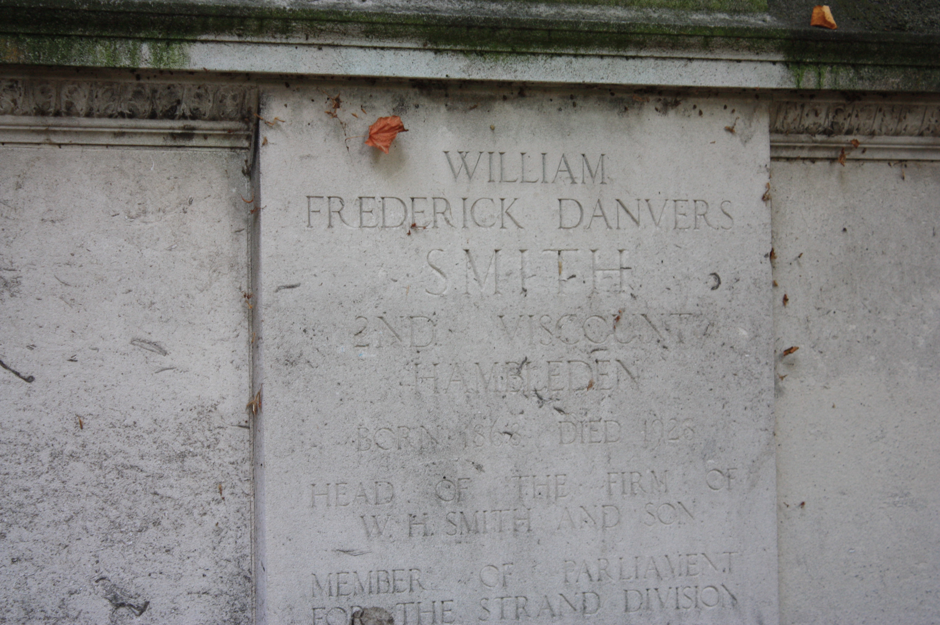 Monument to Smith in the gardens of Lincoln's Inn Fields, London